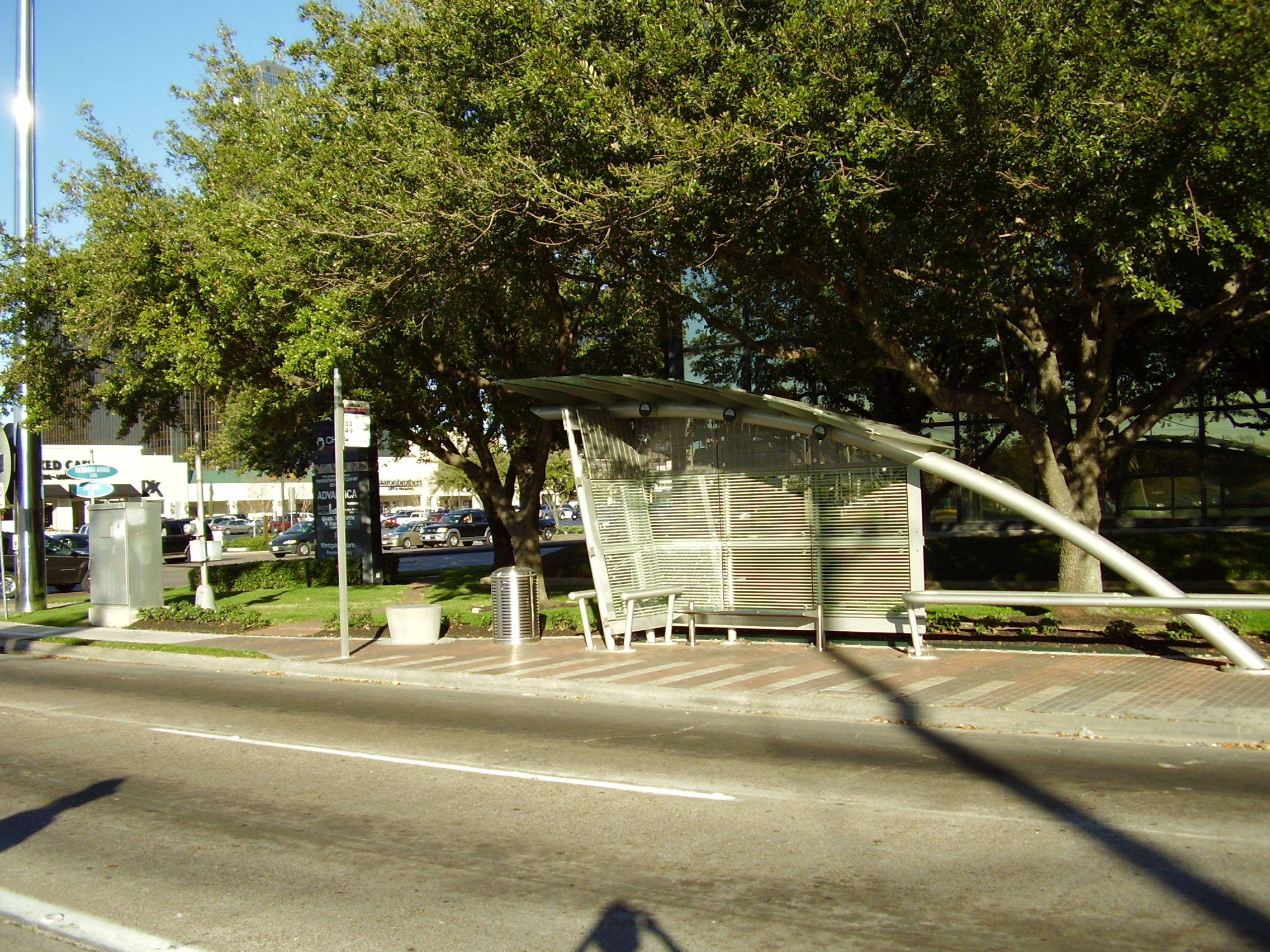 METRO bus shelter in Uptown Houston